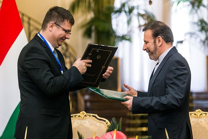 Cooperation agreements between Hungary and Iran.